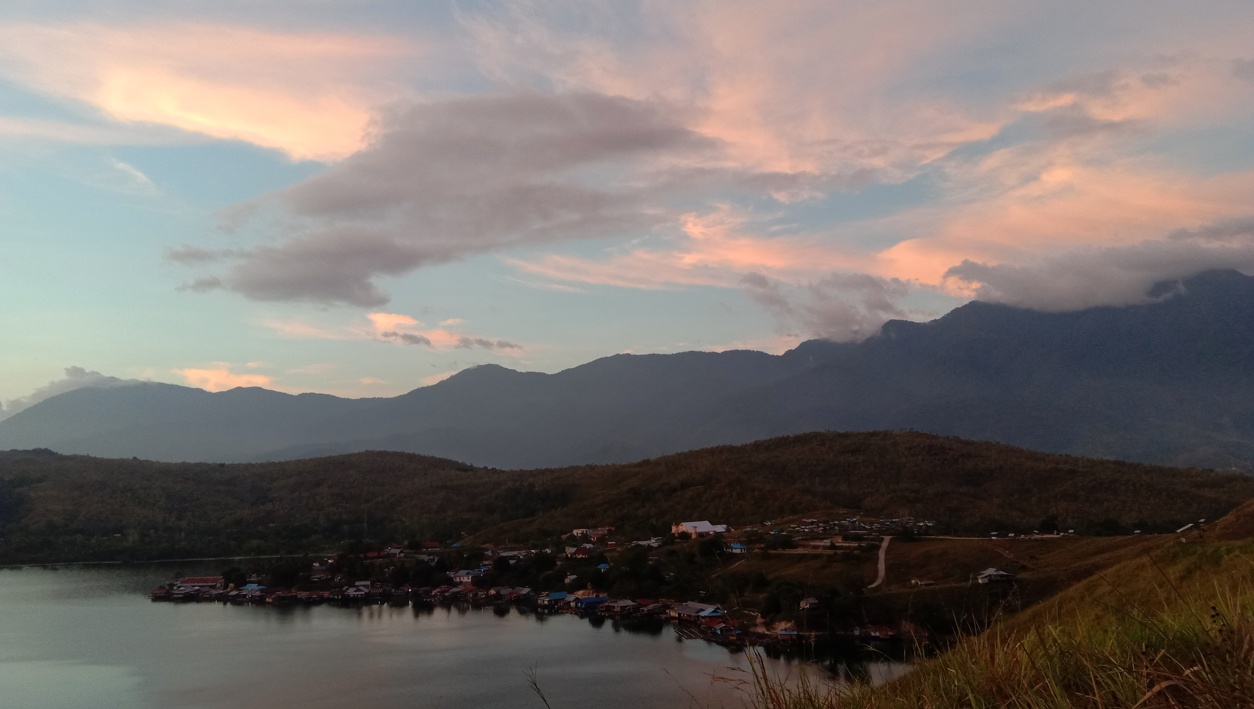 Kampung di pinggiran danau sentani pada senja hari. Di ambil dari perbukitan Teletubies Sentani